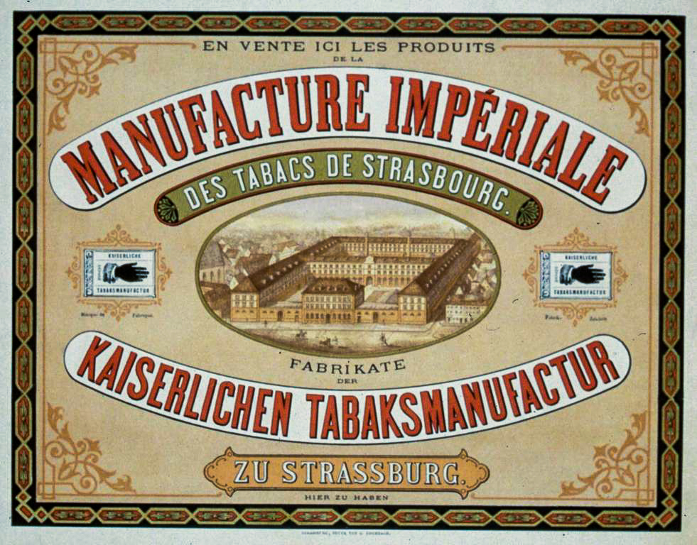 Manufacture impériale des tabacs de Strasbourg; Kaiserlichen Tabaksmanufactur zu Strassburg / 52 x 39 cm : coul Coll. H. Solveen